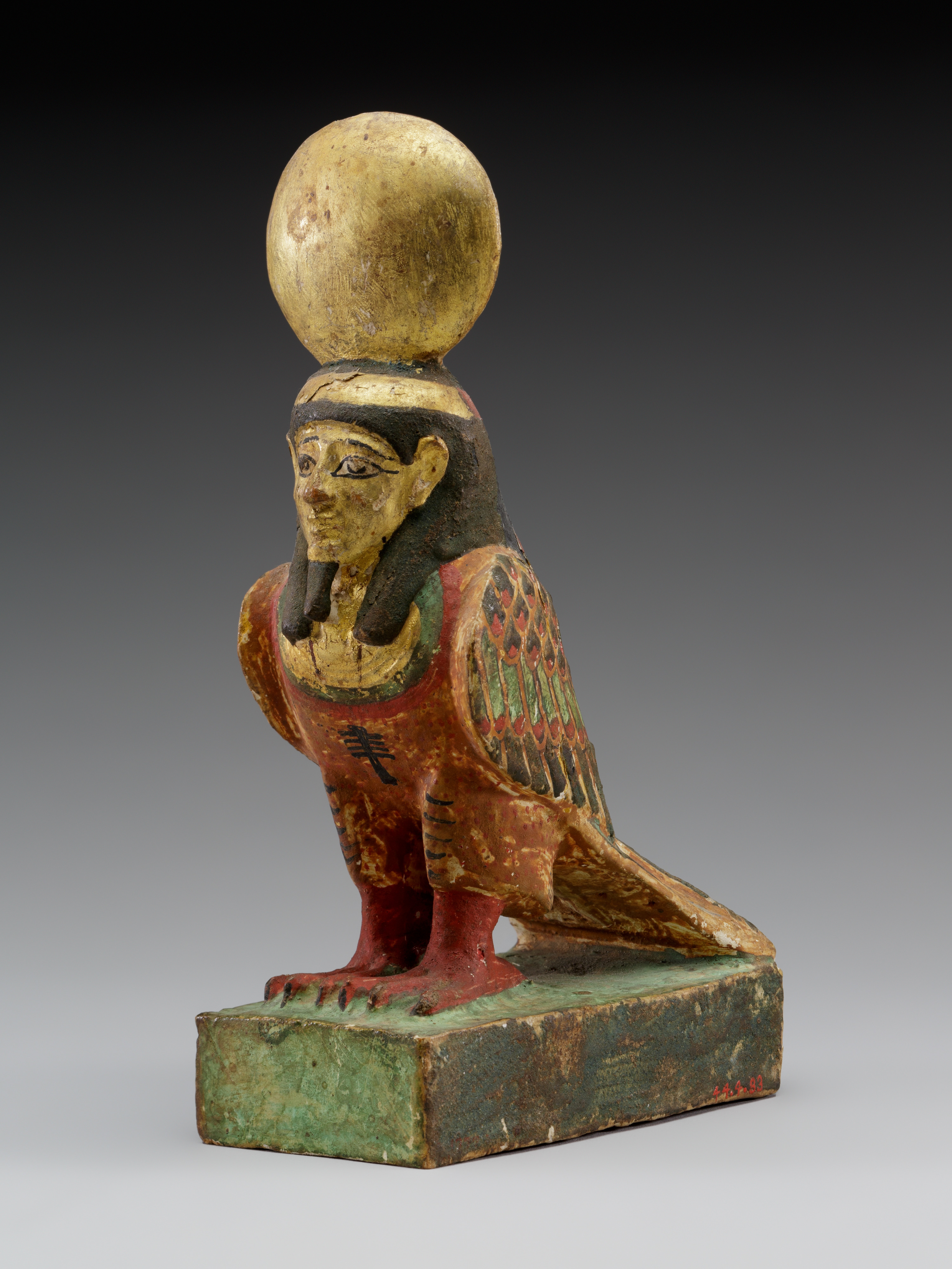 Statue, Ba-bird